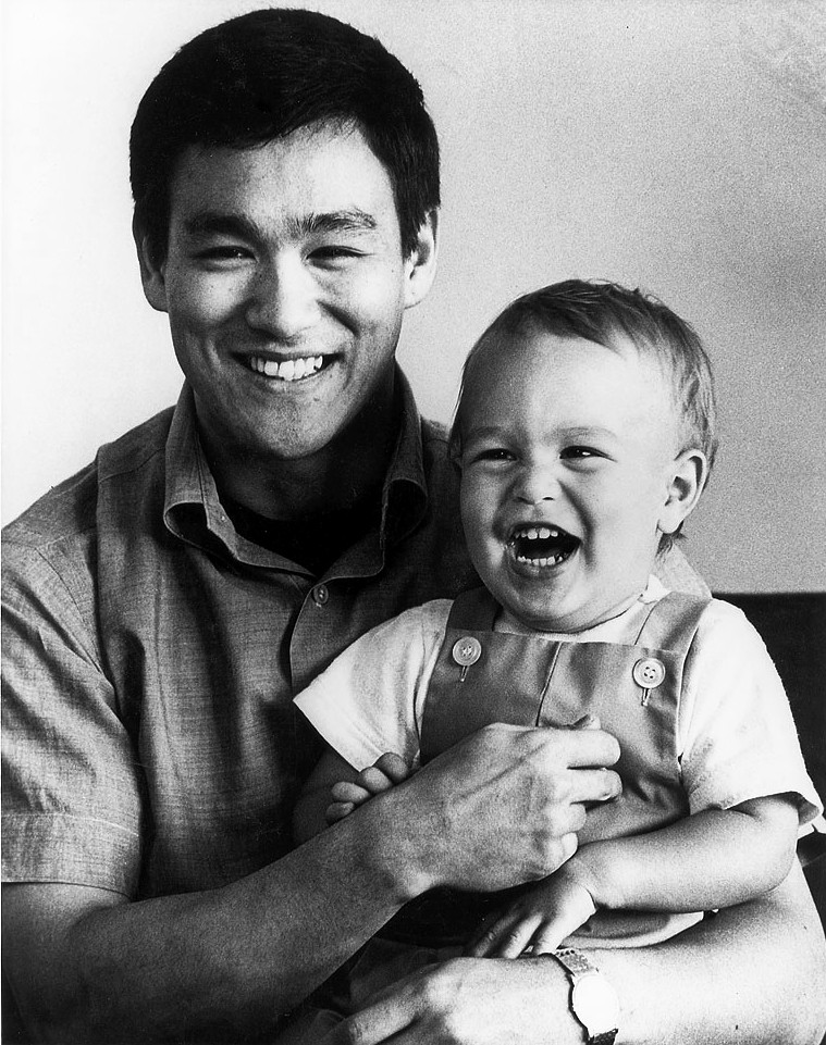 Publicity photo of Bruce Lee with son Brandon. Per source, the photo was accompanied by an original color press kit folder for Enter the Dragon." This is standard publicity style promotional photo. See film still for general copyright info for celebrity photos.